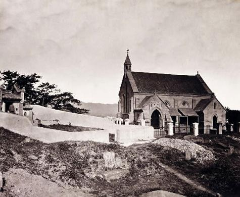 Saint John Church located in Cangqian Shan,Fuzhou,Fujian province,China.Built in 1860,the owner was Church of England.After 1949,it is used as a print workshop.This photo was shot by John Thomson during 1869 and 1872.